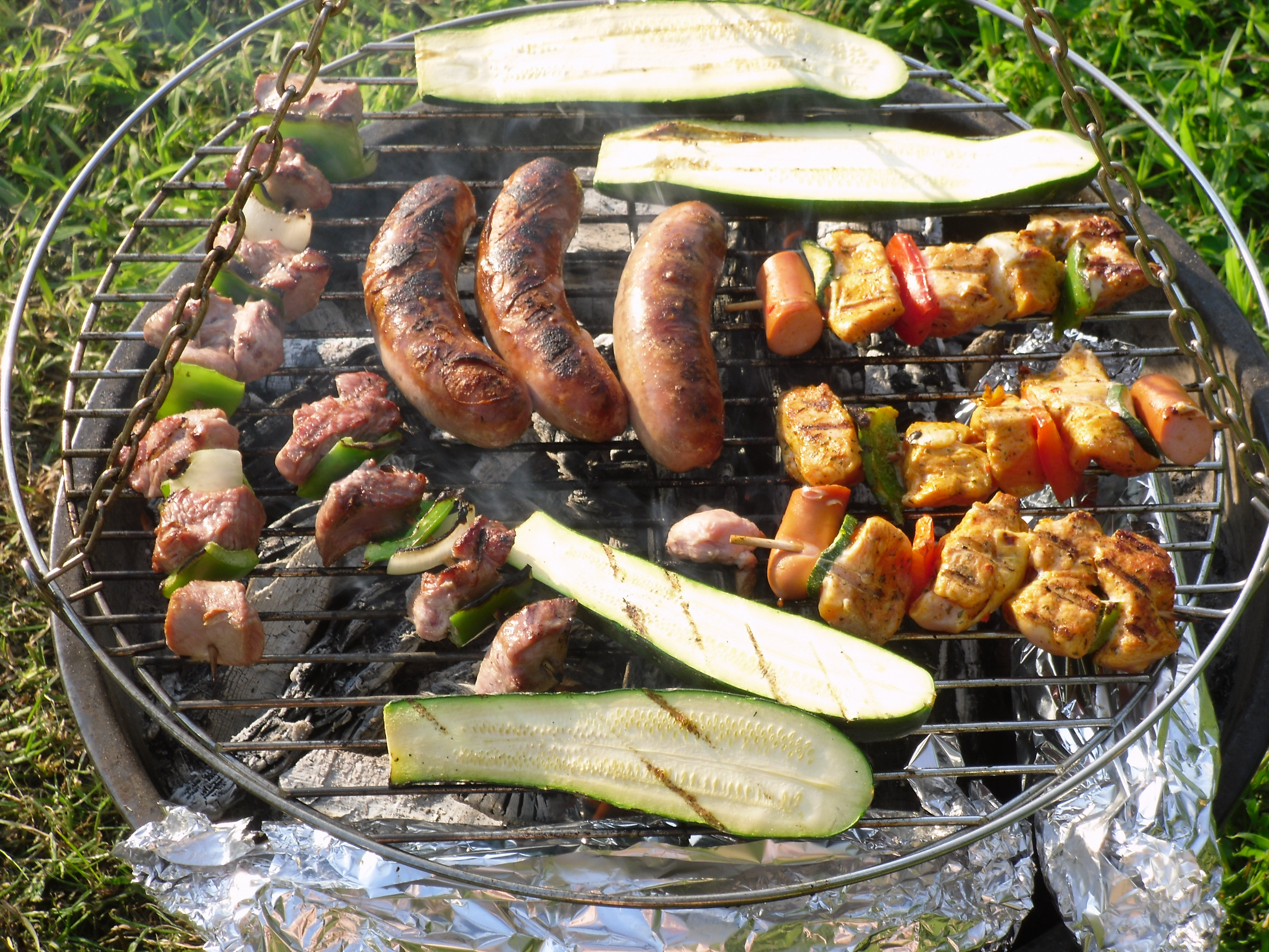 Barbecue